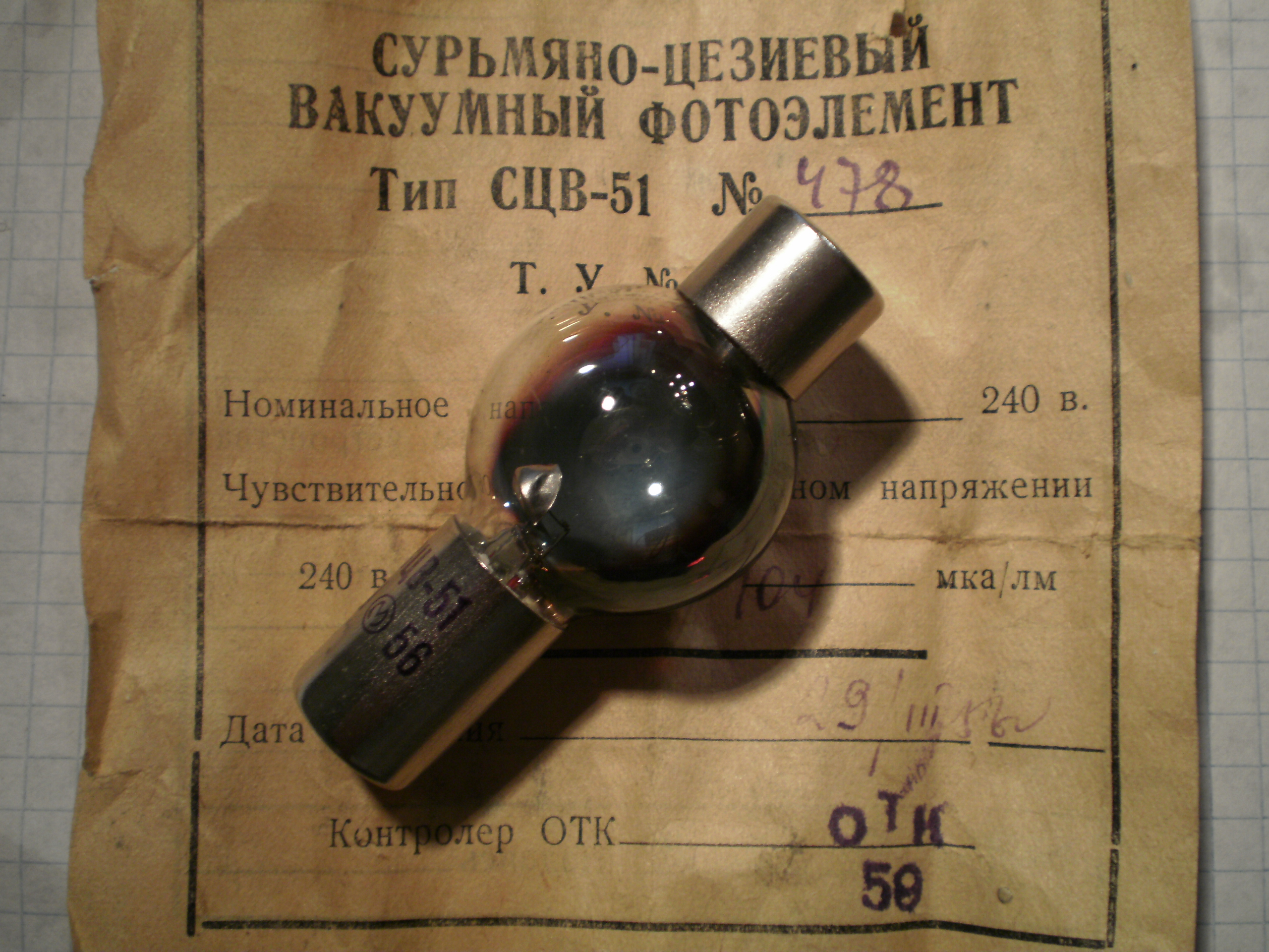 Photo of Cs/Sb vacuum photocell СЦВ-51